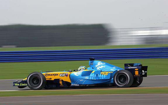 Renault F1 racing car at Silverstone21 Renault JP